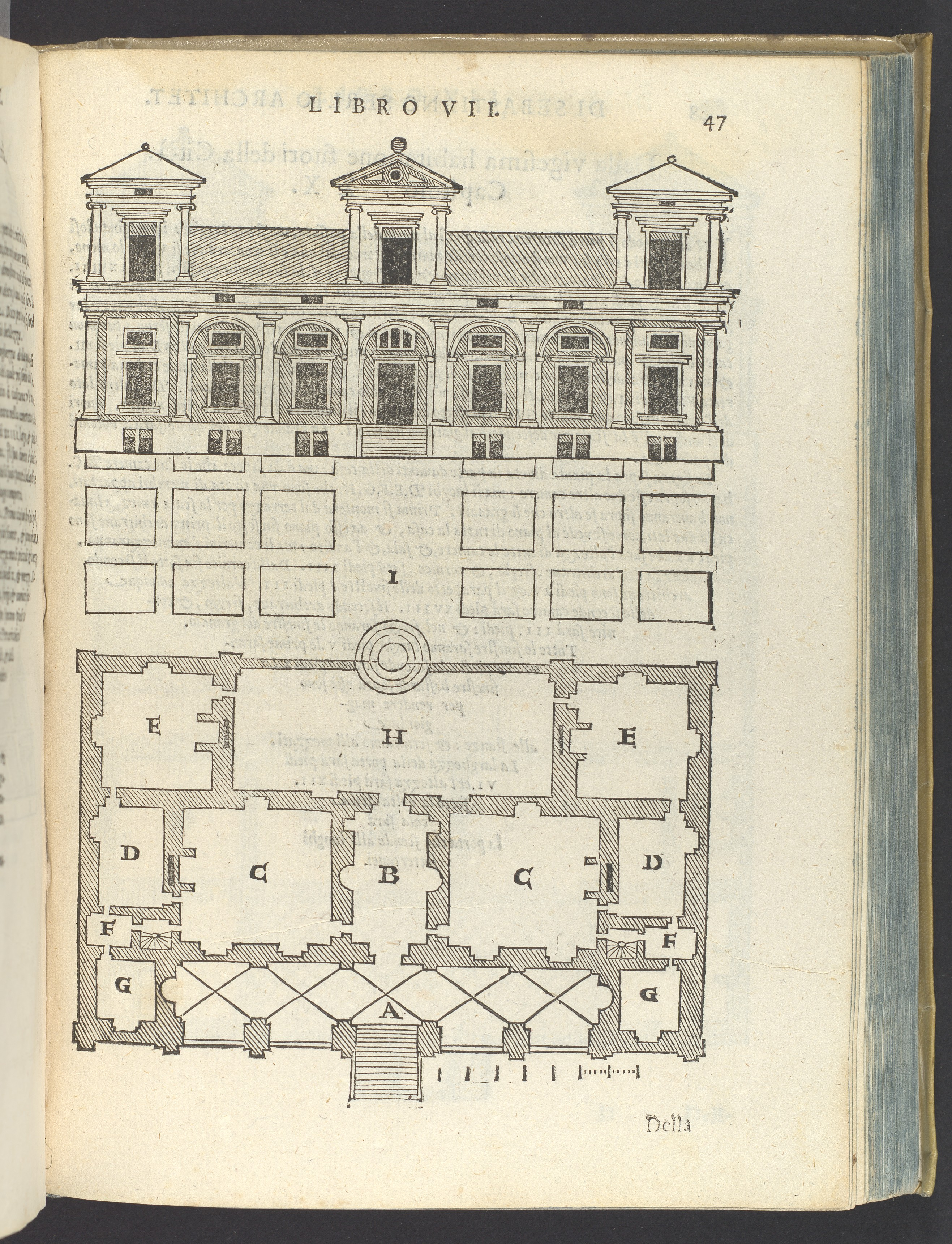 Book ; Ornament and architecture; Books